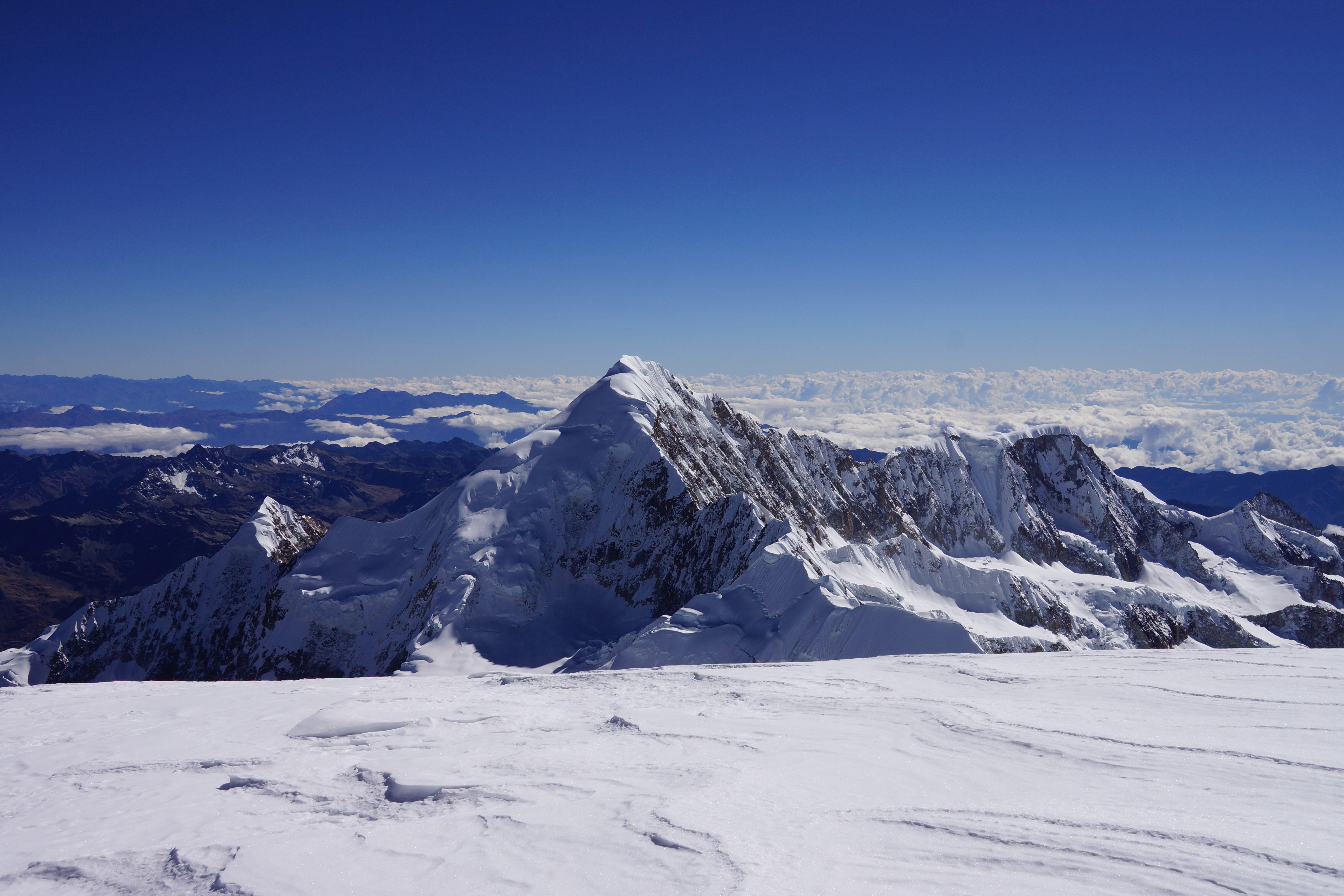 The Illampú (6368m) seen from the summit of Ancohuma (6427m)